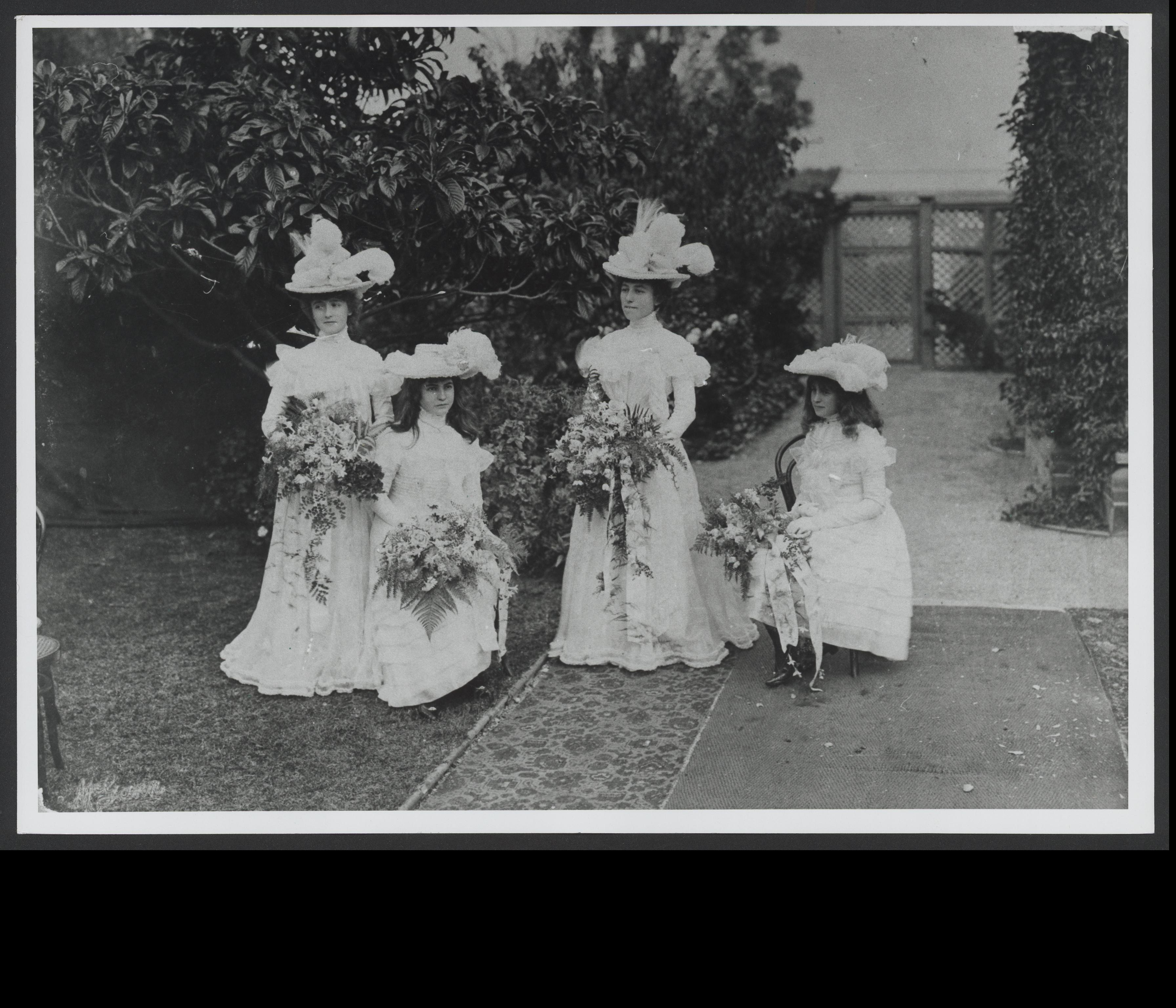 Wakefield Street, south side, 18 April 1900. Bridesmaids at the wedding of Elsie Bonython with Herbert Angas Parsons. Left to right: Elsie Parsons (half sister of bridegroom); Ada & Edith Bonython (sisters of the bride); Winifred Bonython (cousin of the bride)